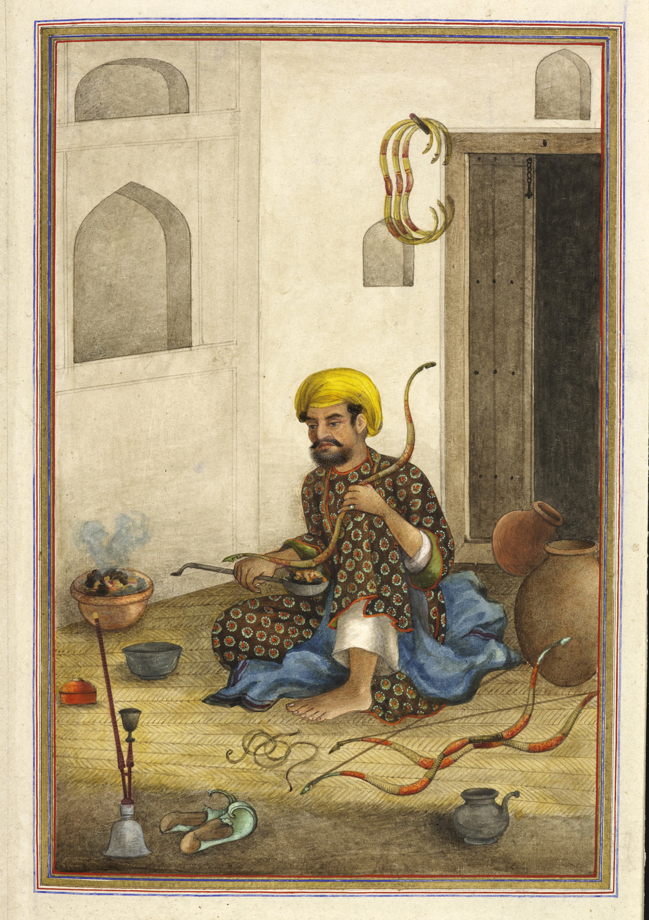 Kamdangar, a bowmaker. Shown bending the wood of a bow over a bowl of embers. (Occupational sub-division of ‘Tarkhan’ caste, bowmakers).